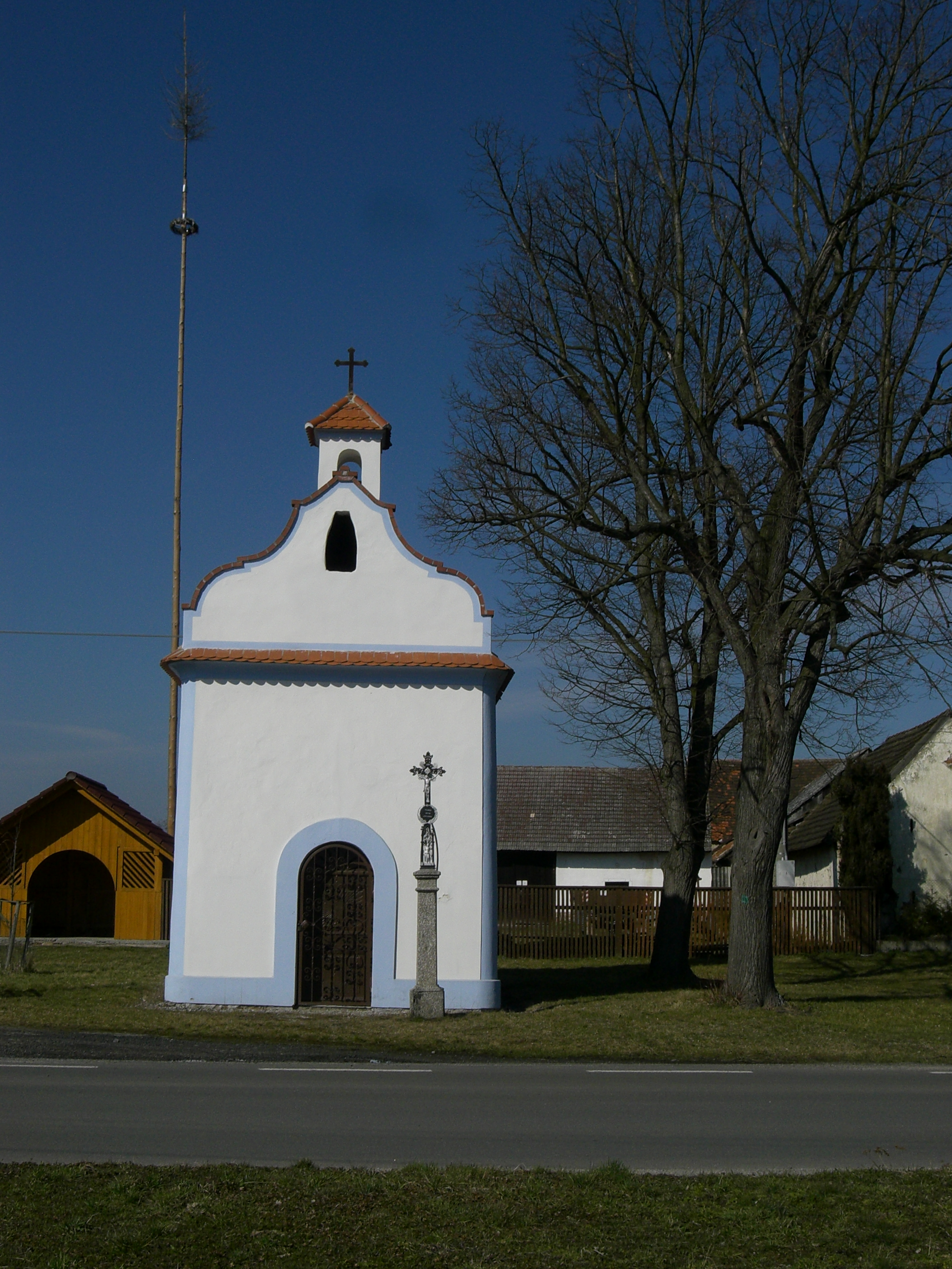 Skály village in Písek district, Czech Republic. Chapel on the village common.